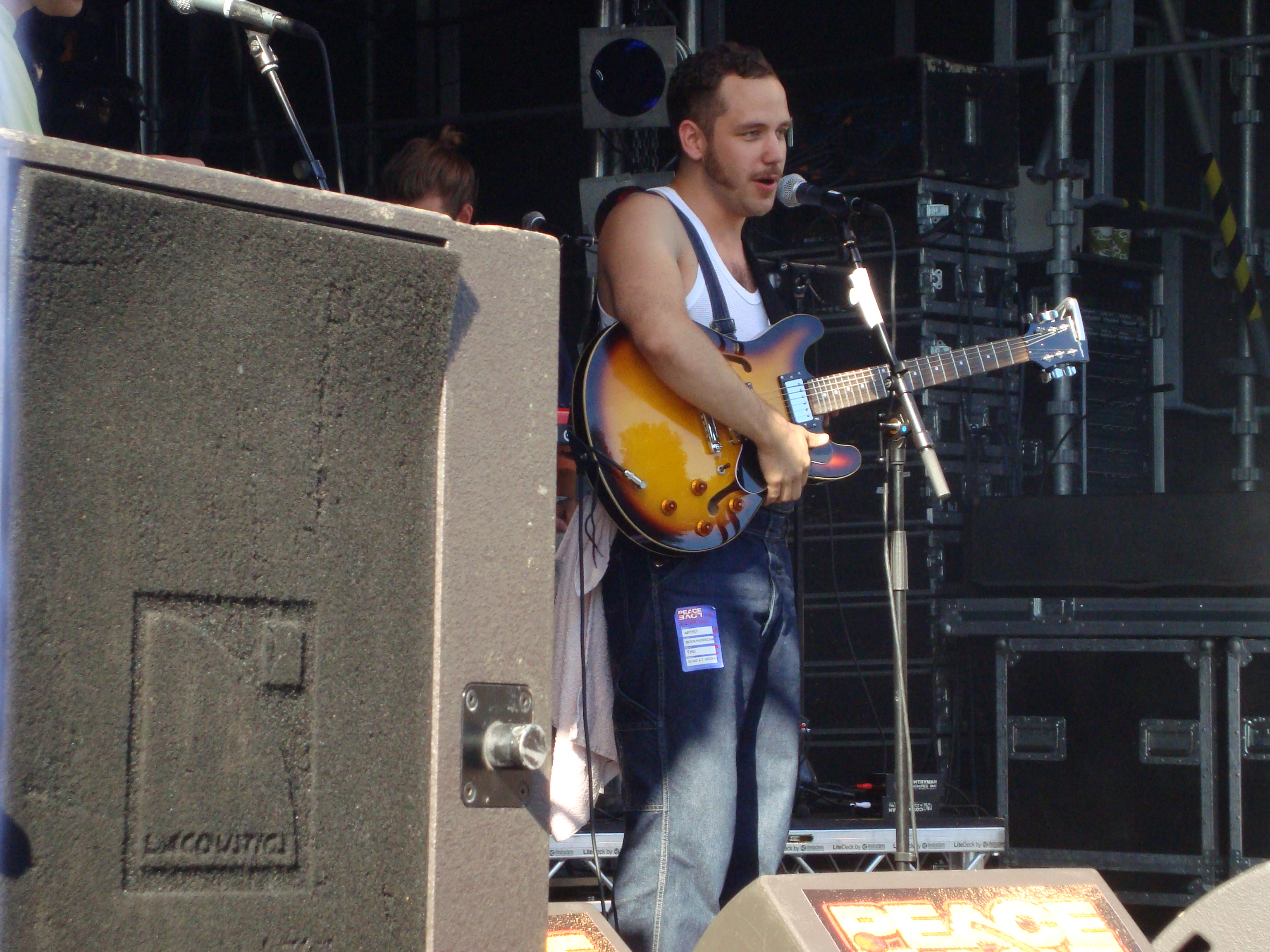 Pop band 'Elias and the Wizzkids' at Peace and Love festival, Borlänge, Sweden. Vocalist Elias Åkesson.